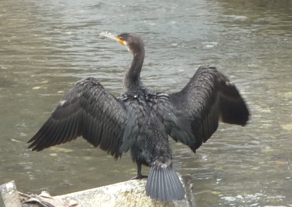 Great Cormorant (Japanese Kawau - Phalacrocorax carbo), drying wings by small vibration at a river Chiba Japan.